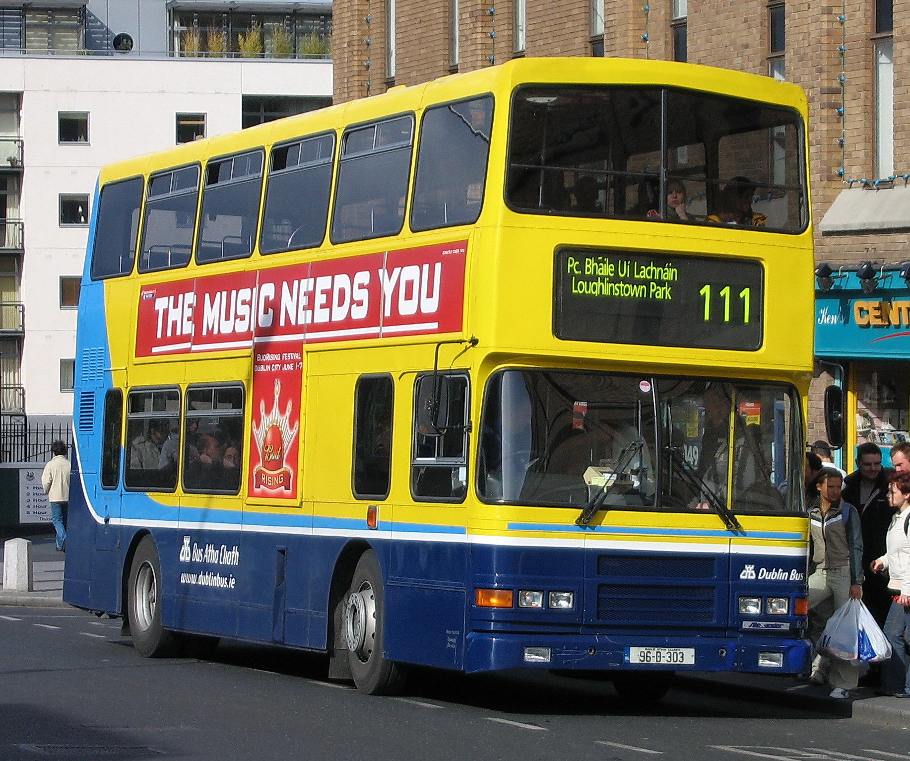 Dublin Bus bus RA303 (reg. 96 D 303), a 1996 RA-class Alexander (Belfast) bodied Volvo Olympian double-decker, pictured on Marine Road in Dún Laoghaire operating route 111. Withdrawn in August 2008, it was exported to the UK to Chalkwell's of Sittingbourne by October 2009, who re-registered it with the UK plate N732 JNO.